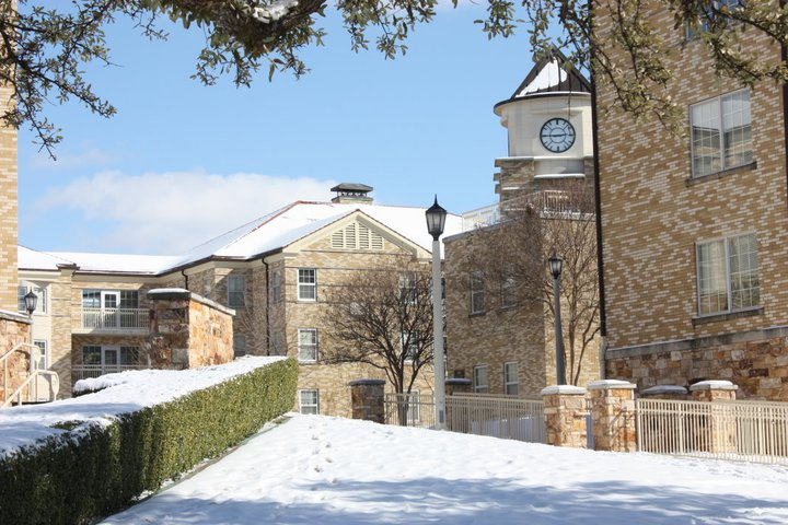 Winter at TCU